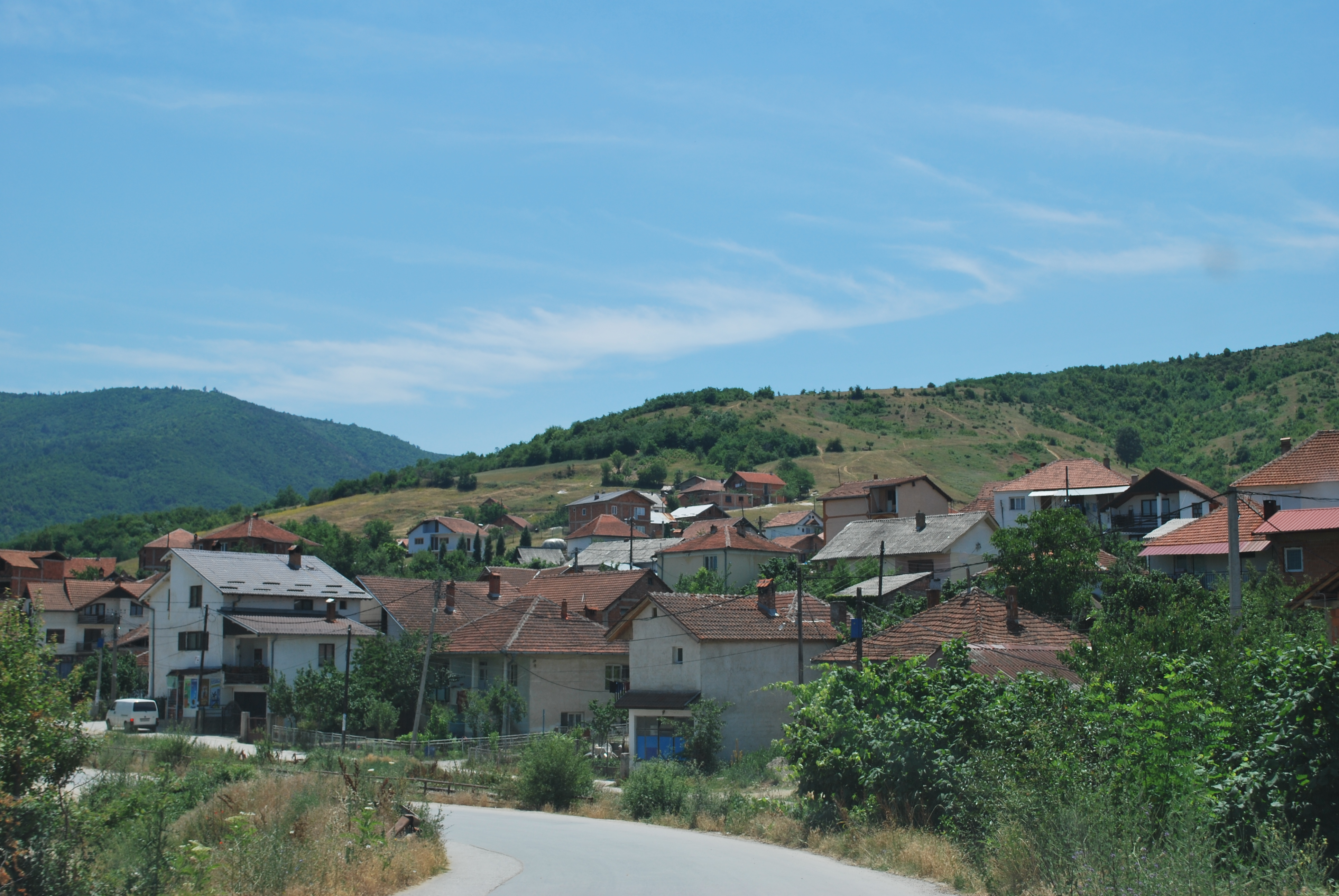 Ciglana neighborhood in Gostivar, Macedonia